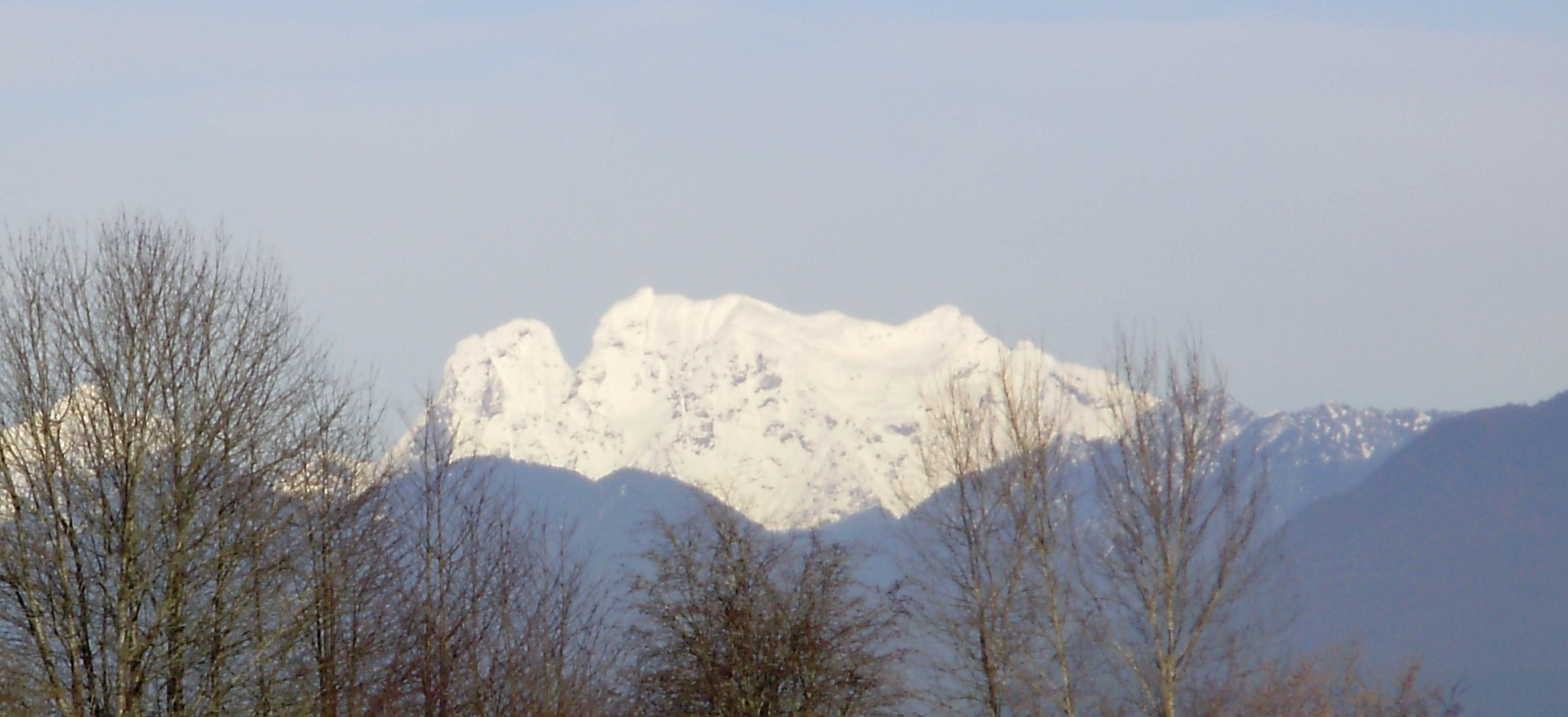 Mount Robie Reid from Langley, BC.